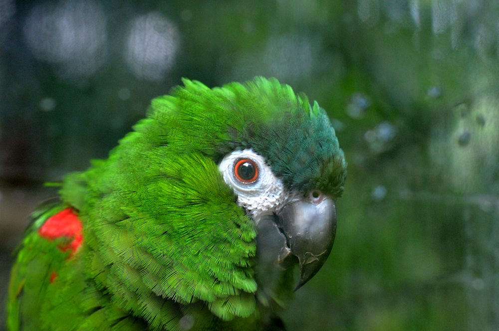 Red-shouldered Macaw (this subspecies is also known as Hahn's Macaw) at Jungle Island, Miami, USA.